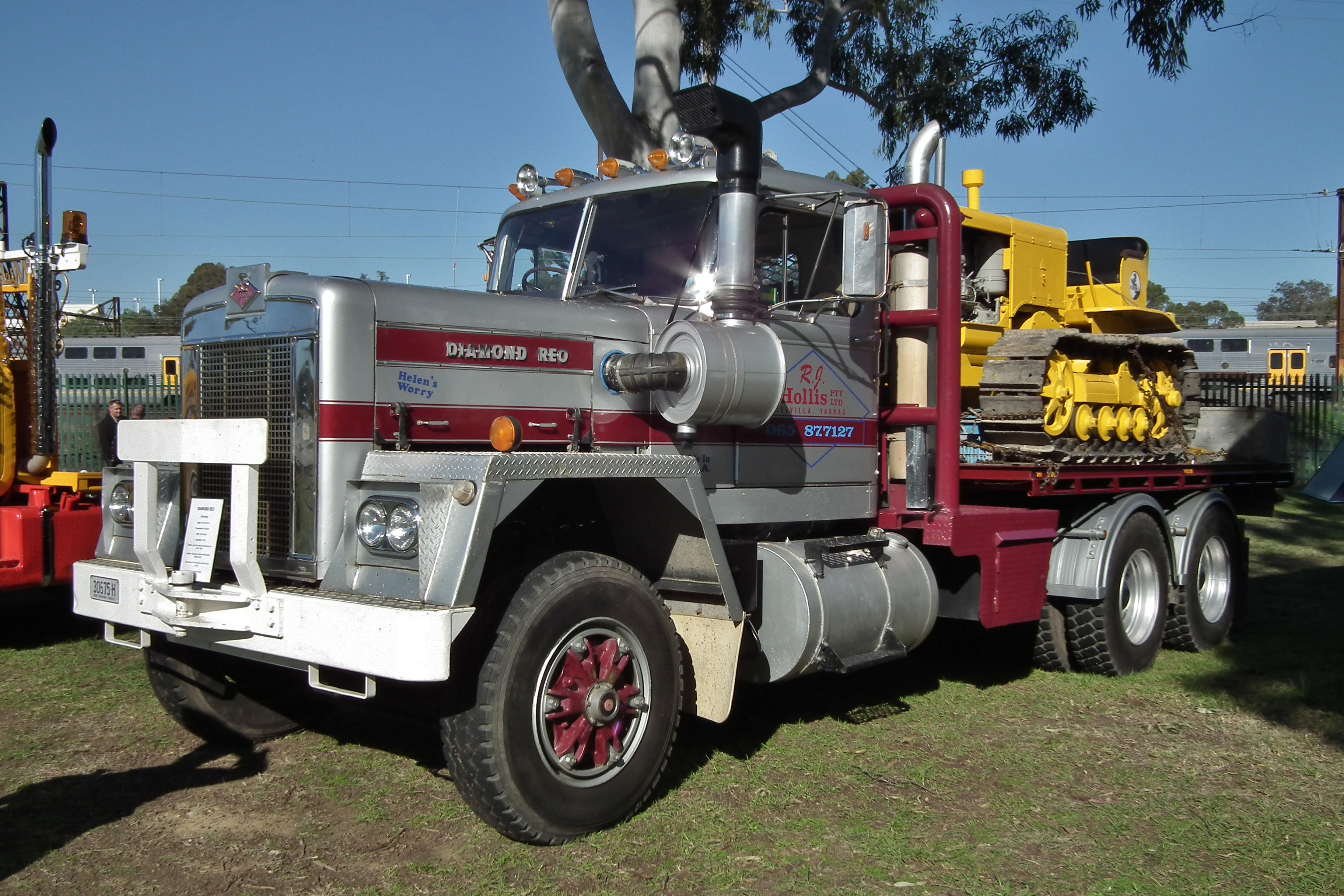 1970 Diamond REO table top. Taken at the 2011 Sydney Antique & Classic Truck Show, held at the Museum of Fire in Penrith, NSW.